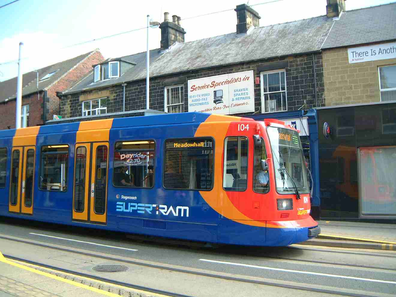 Sheffield Supertram with the new 2006 livery at Hillsborough Park stop in June 2006 Personal photograph taken by Mick Knapton on 8th June 2006